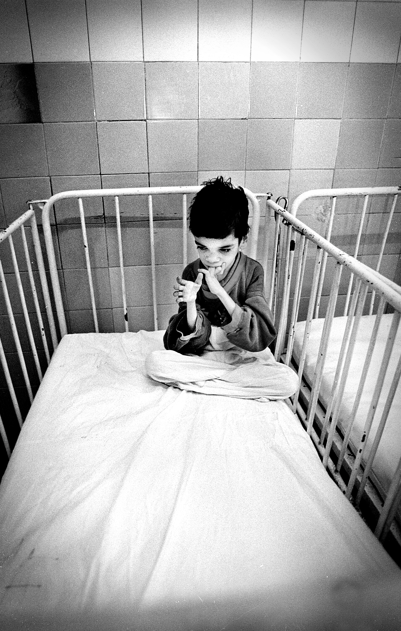 Romanian orphan - Taken by Angela Catlin